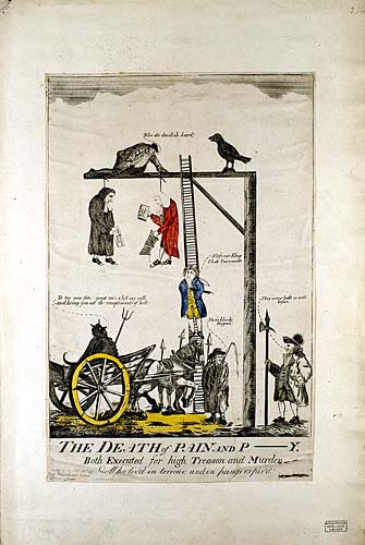 Paine and Priestley cartoon